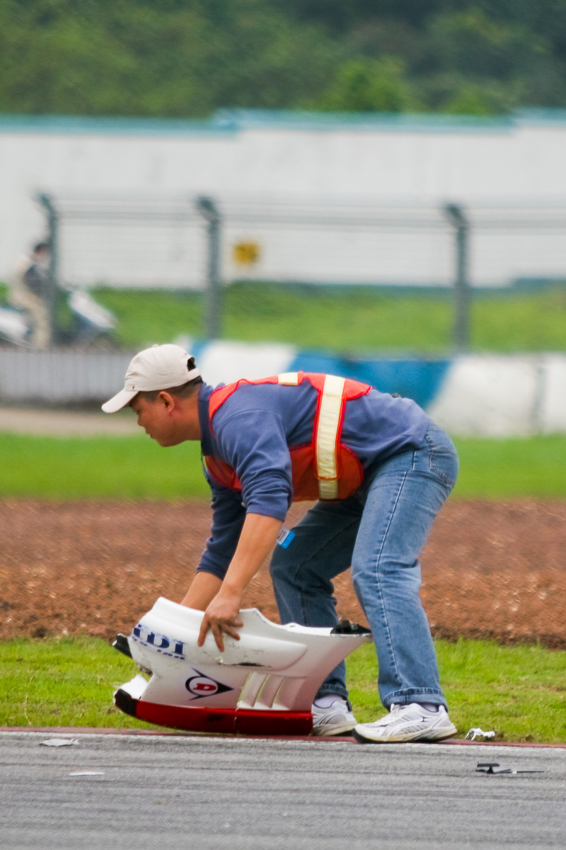 Track marshal at 2006 China Circuit Championship (CCC) #2 Zhuhai